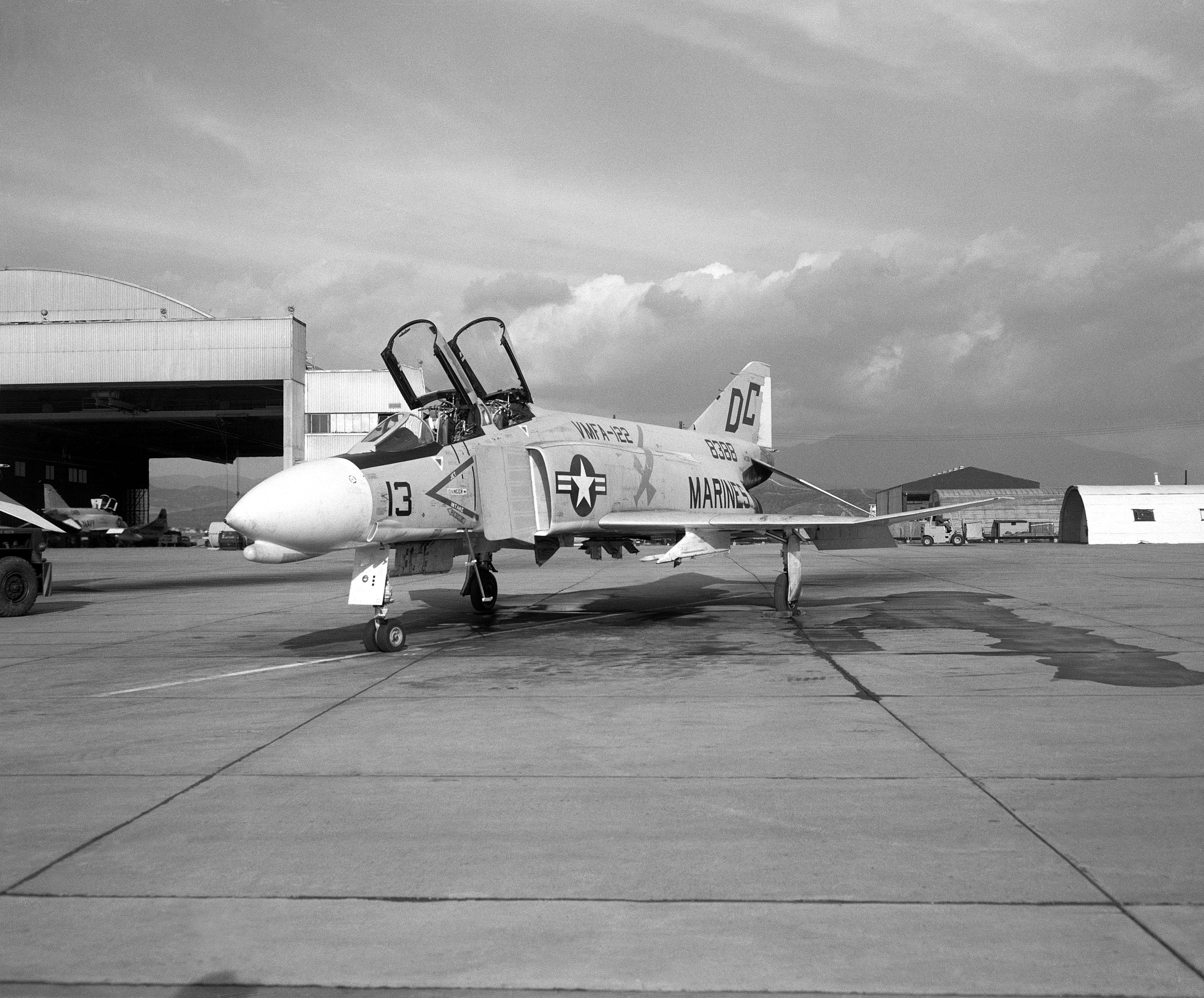 A McDonnell F-4B Phantom II (BuNo 148388) of U.S. Marine Corps fighter-bomber squadron VMFA-122 Crusaders on the flight line at Marine corps Air Station El Toro, California (USA), on 11 February 1966.